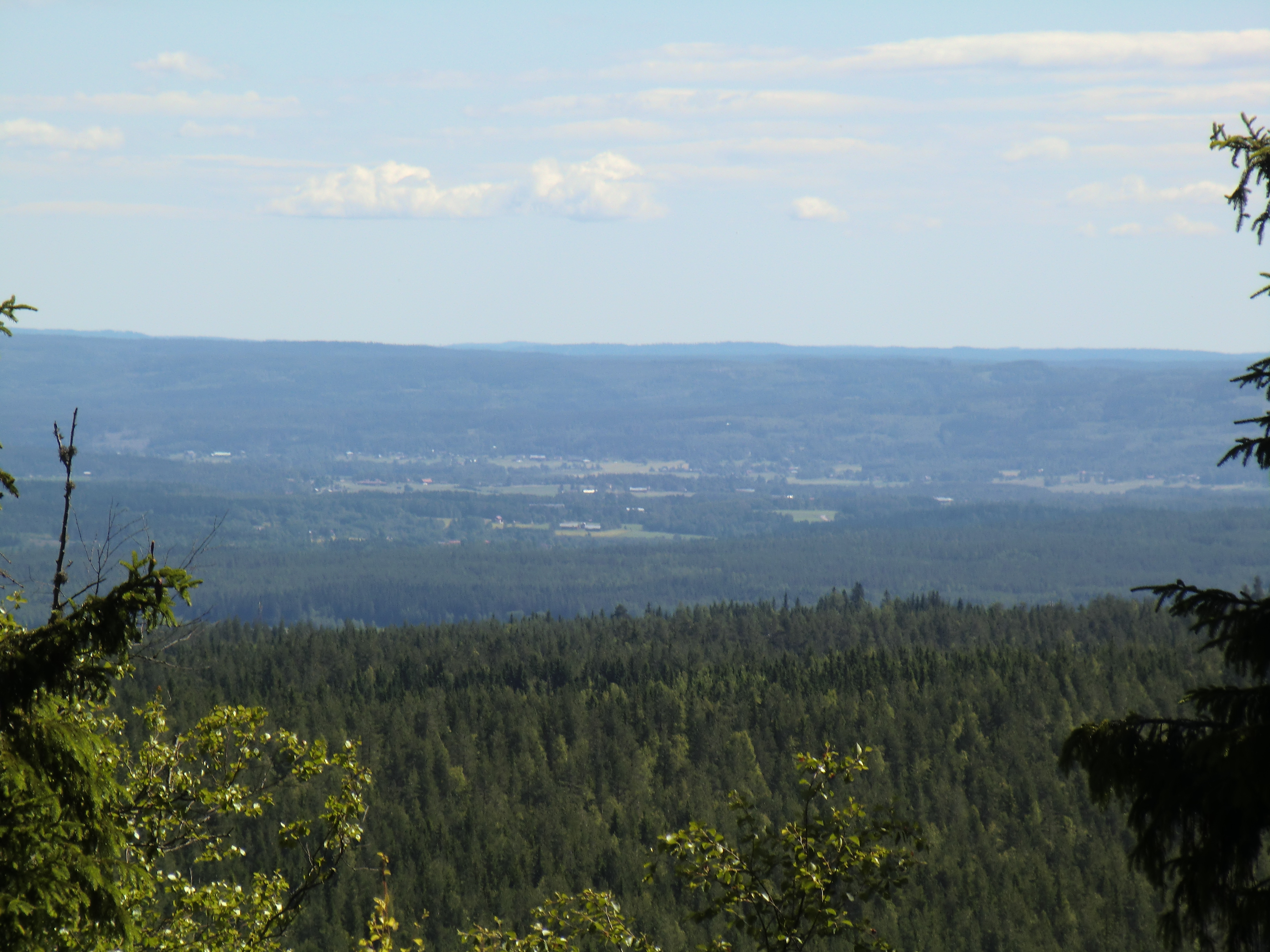 View east from Blåbärskullen in Gräsmark,Värmland, Sweden